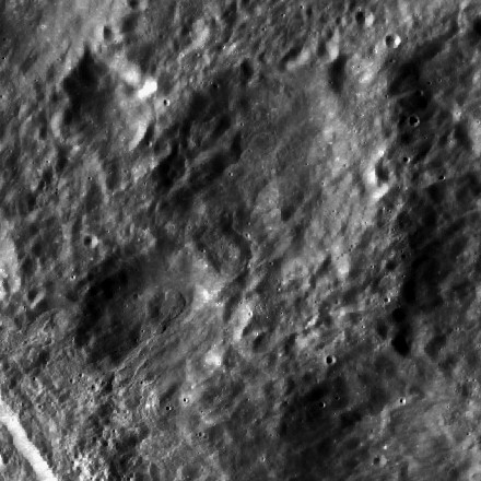 LROC Patsaev is identifiable at upper center of image, overrun by Tsiolkovskiy ejecta ( whose rim is visible at left bottom corner )